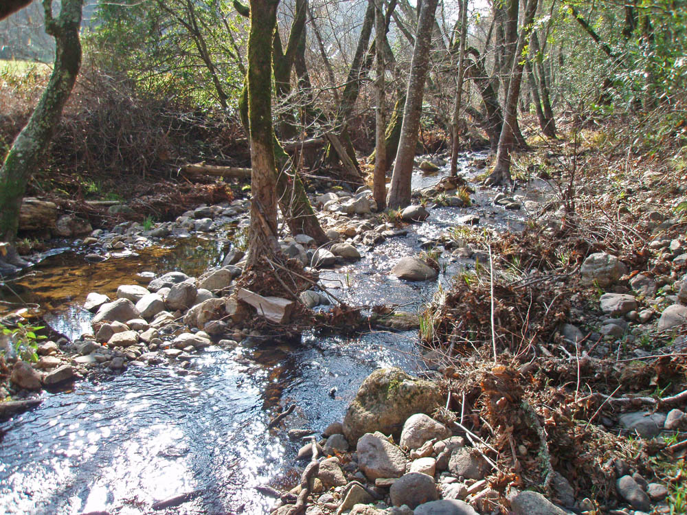 subject:upper reach of calabazas creek, sonoma county calif.; date: feb 3, 2007; photographer: c m hogan; low res version of photo